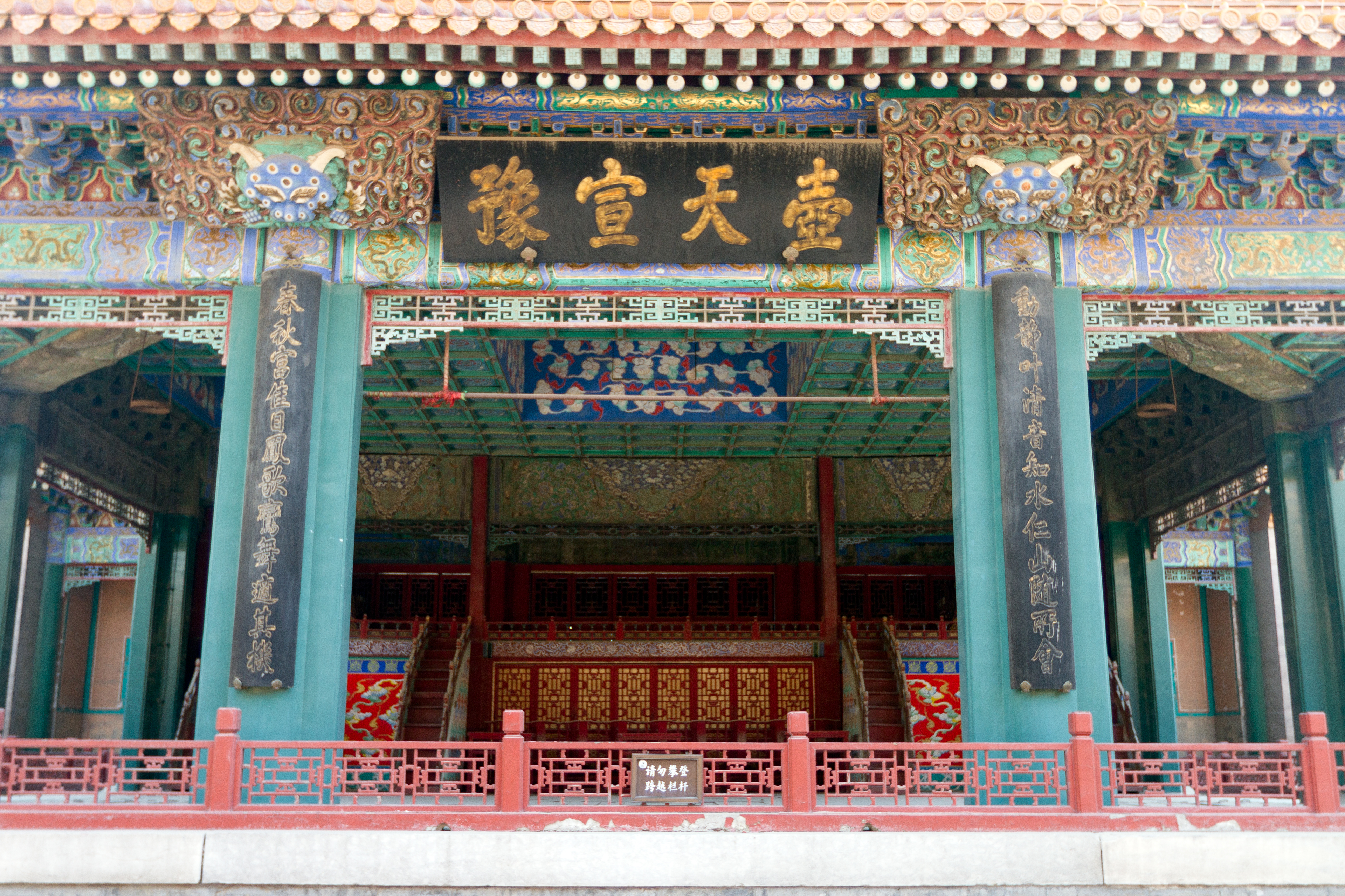 Pavilion of Pleasant Sounds stage